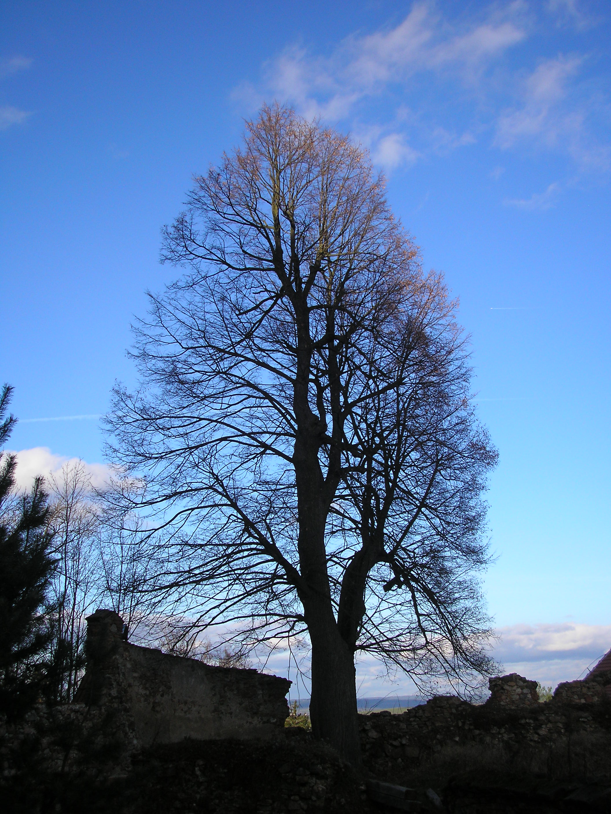 Linden at Sádek near Třebíč. The czech tree oft the year 2006.